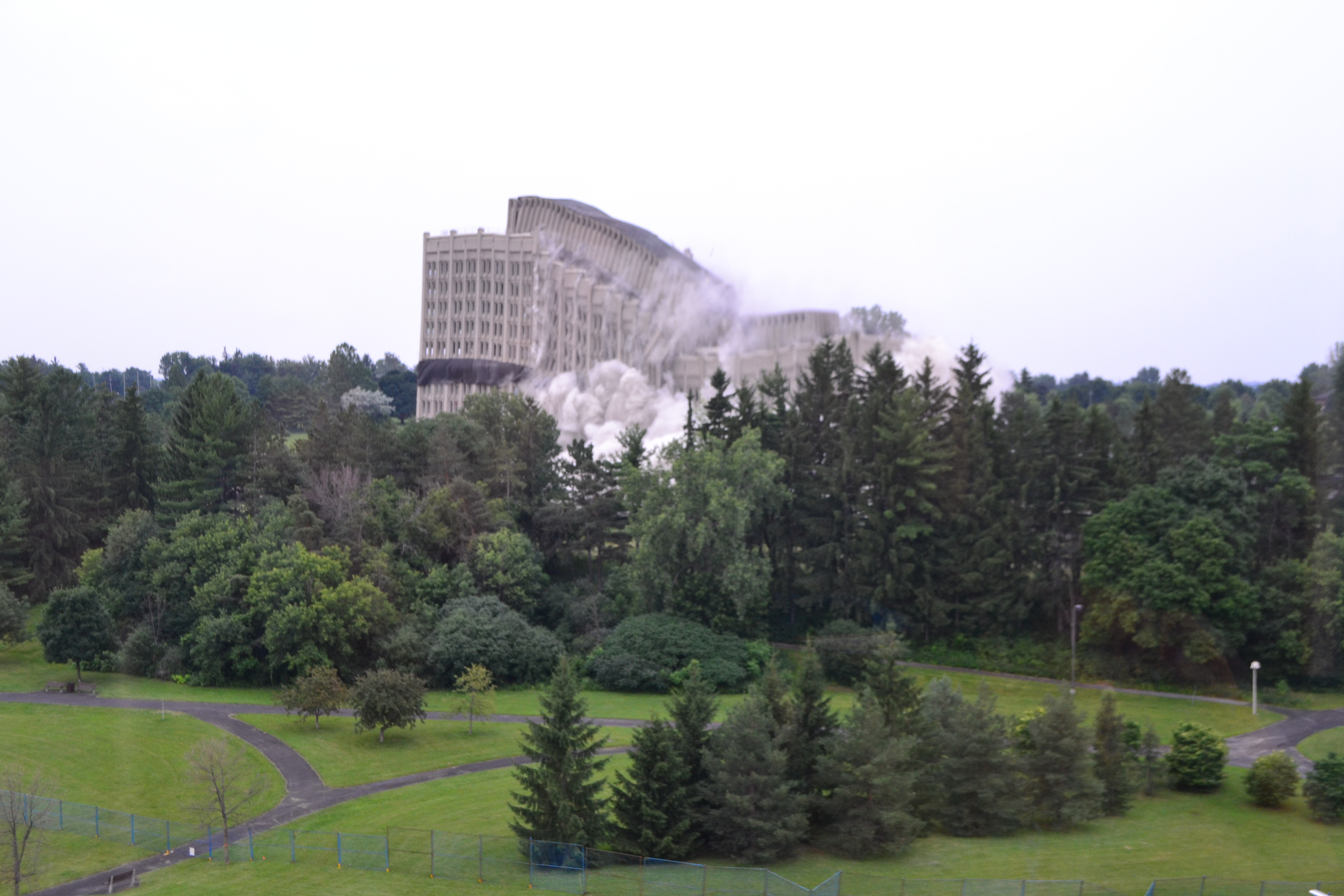 Photo of the Sir John Carling building taken from across the street as it was collapsing. The building was the headquarters of the Canadian federal department of agriculture for about forty years.